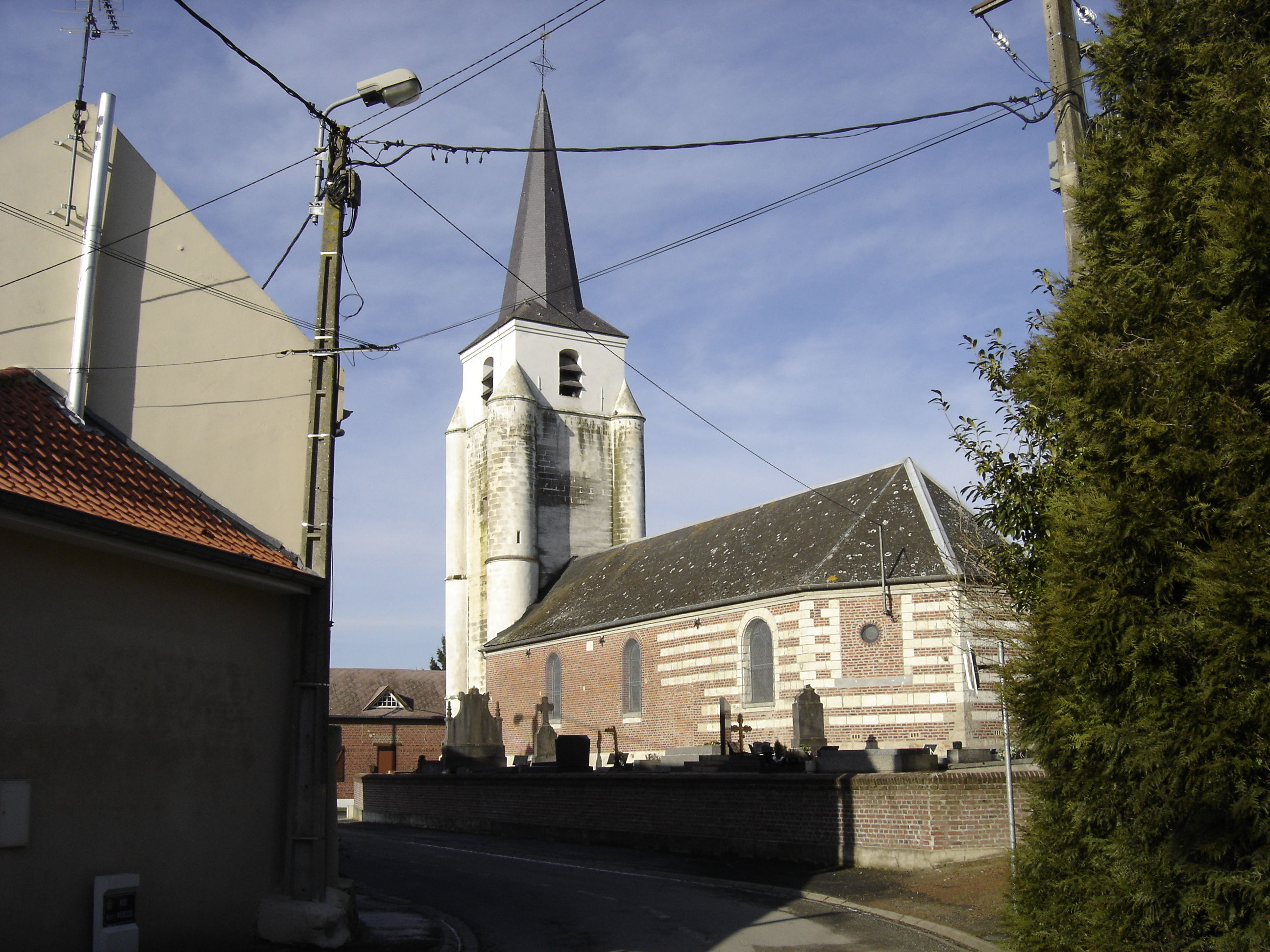 Eglise d'Audencourt - Church of Audencourt